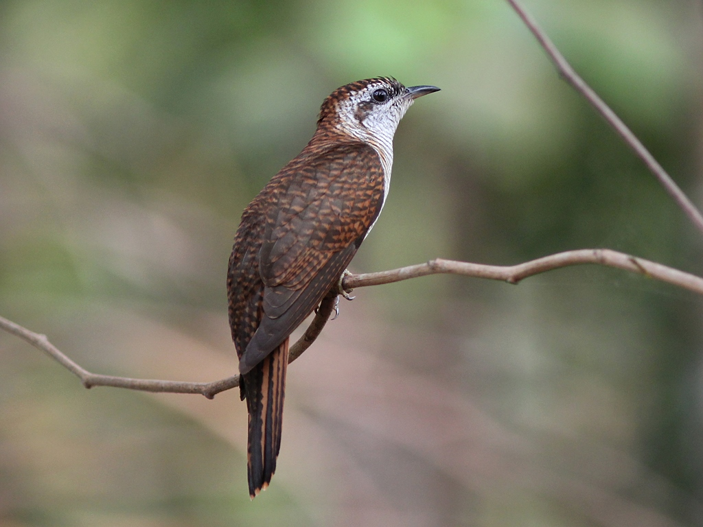 My first shot and sighting of this lovely cuckoo. The adults are bright rufous or bay on the head and back and are broadly barred with dark brown. The bill is long and slightly curved. A whitish supercilium is distinctive above a dark eye-line. The sexes are alike. They are found in the Indian Subcontinent and Southeast Asia. Like others in the genus they have a round nostril. They are usually found in well wooded areas mainly in the lower hills.